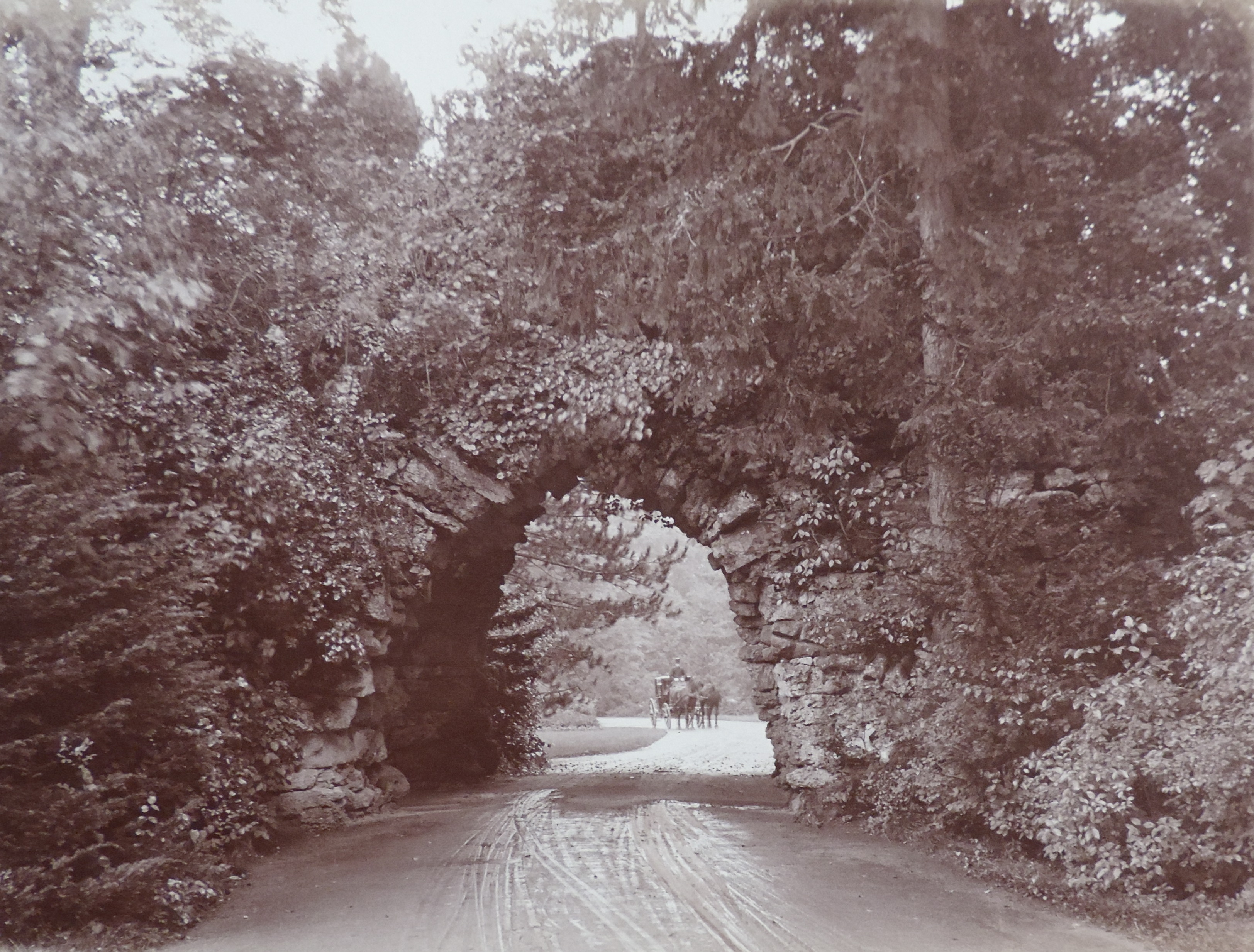 Views and photos of Bayreuth, Germany, gifted to Ferdinand I of Bulgaria to commemorate his 25-year rule. Park in the hermitage in Bayreuth.